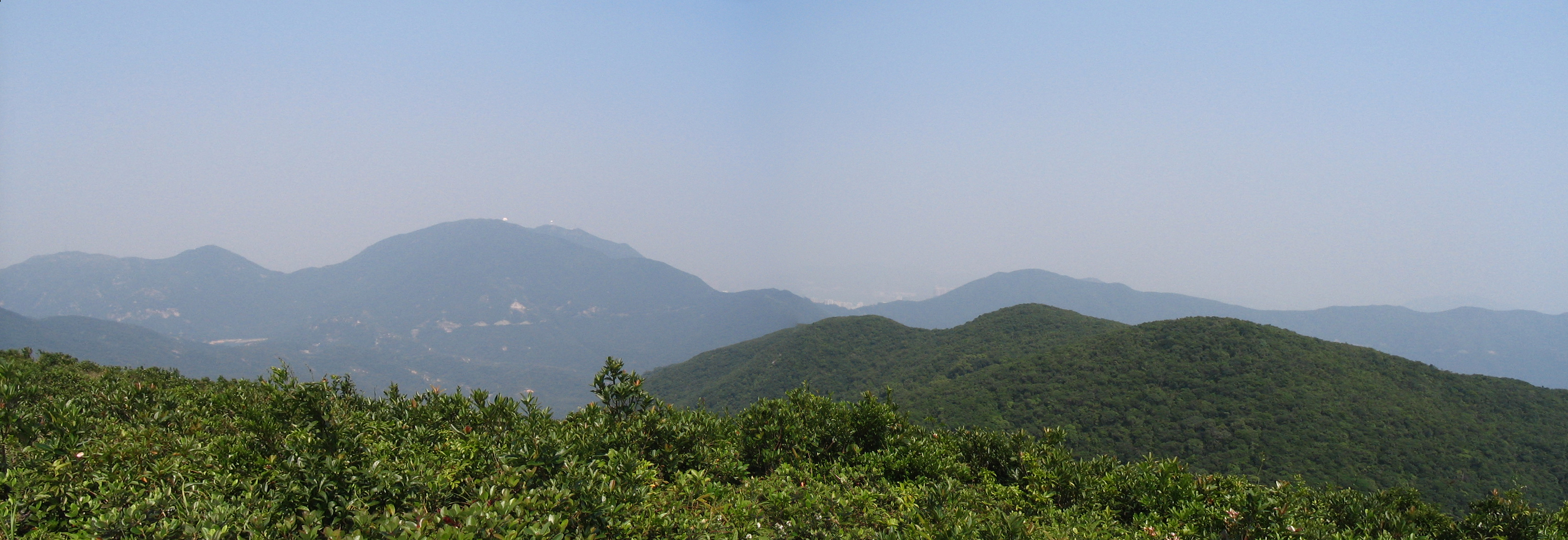 Panoramic photo of hills at Tai Tam, combined from 1633098662 and 1632217559